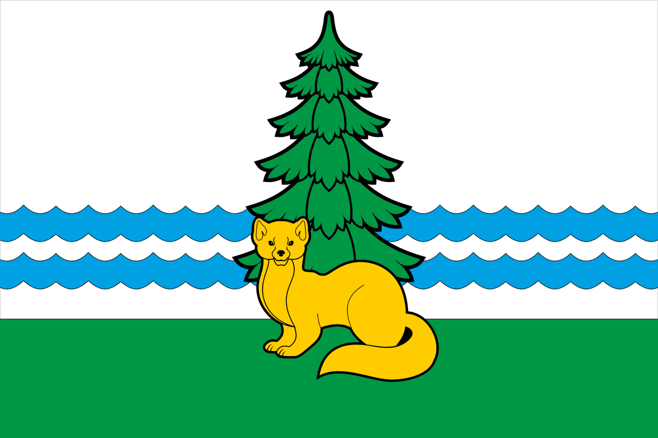 Flag of Ust-Maya, Yakutia, Russia